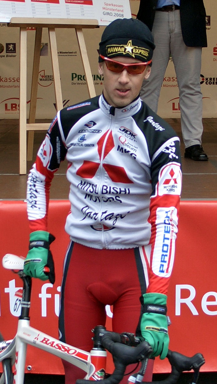 Kalle Kriit